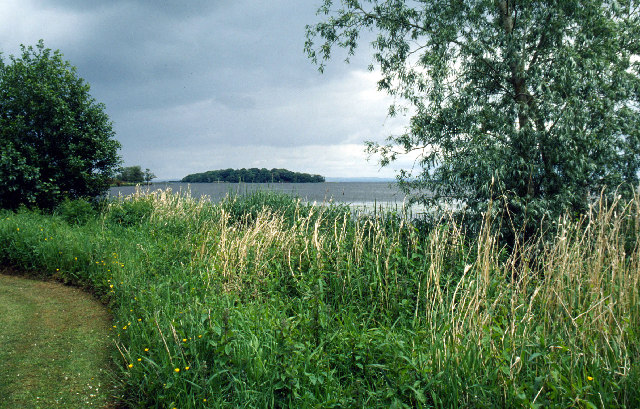 Maghery Country Park. Maghery Country Park is on the southern shore of Lough Neagh, the largest inland lake in the British Isles.